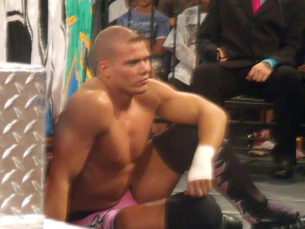 Professional wrestler Tyson Kidd (real name TJ Wilson) at a Florida Championship Wrestling on July 30, 2009.